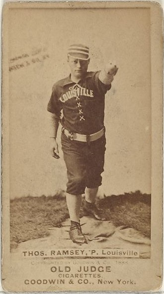 1888 Old Judge card of baseball player Toad Ramsey